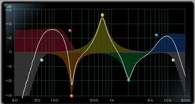 Parametric equalizer